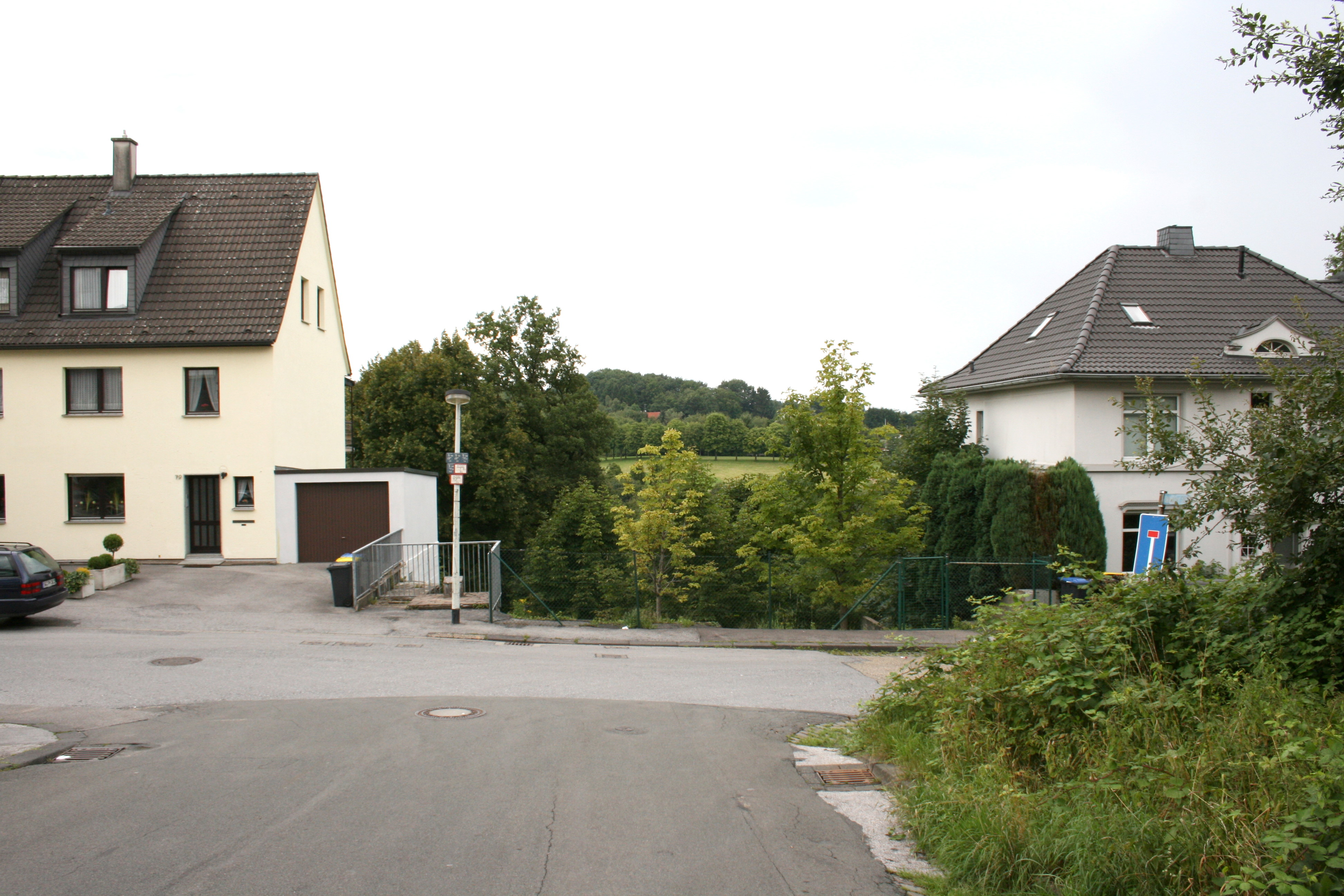 Location of the Solingen arson attack of 1993